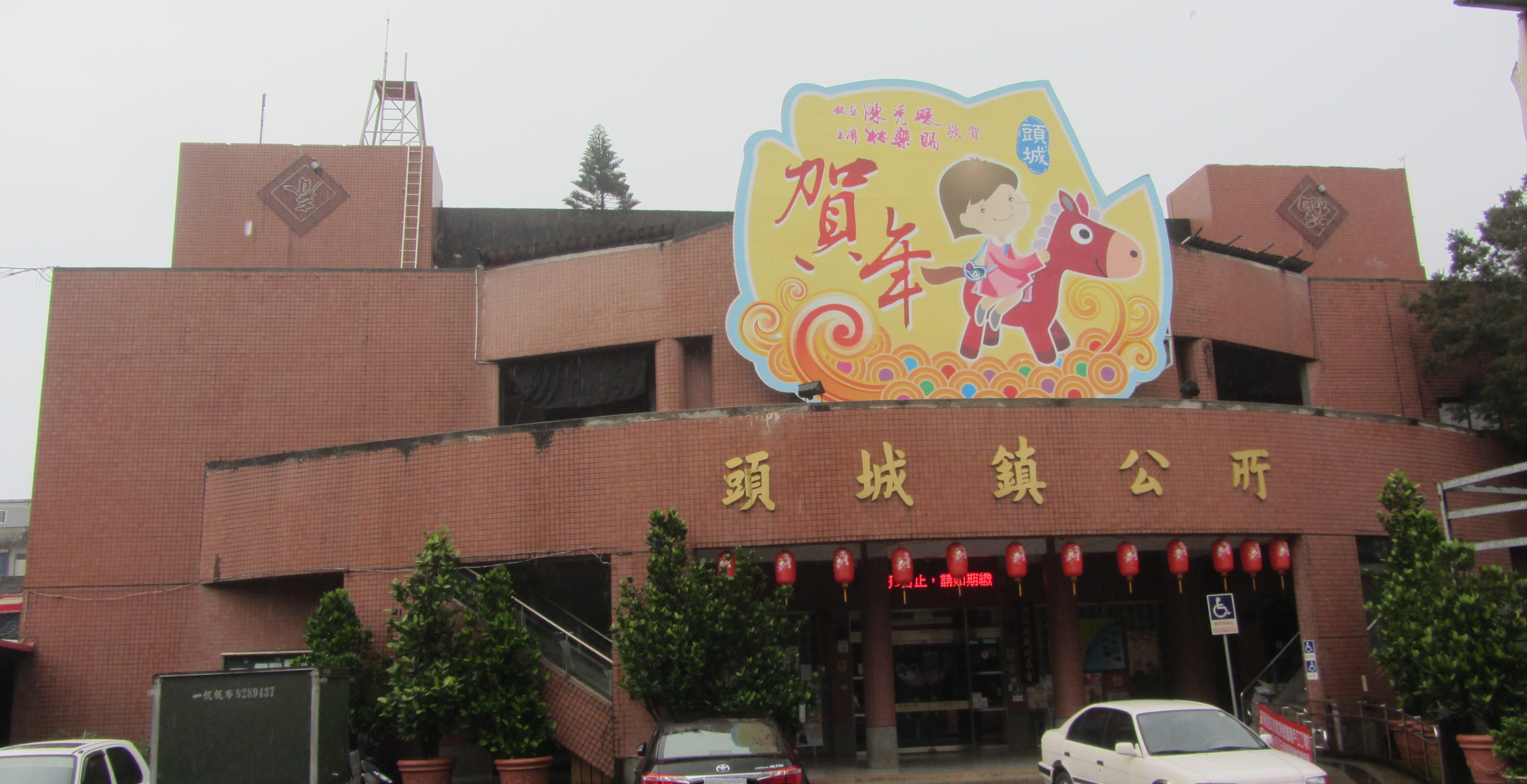 Toucheng Township Office 中文（台灣）: 頭城鎮公所